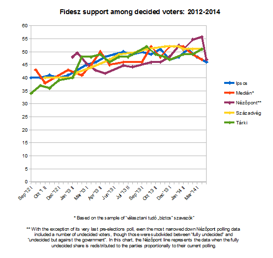 This chart illustrates the level of support for the Hungarian government party Fidesz among decided voters, as measured by the five polling institutions that regularly conduct polling in Hungary, over the year 2013. Please note the information in the footnotes about how I chose one of two available selections of decided voters for which Medián published data, and recalculated the Nézőpont data to eliminate the "don't know" category and make the totals add up to 100% in a representative fashion.